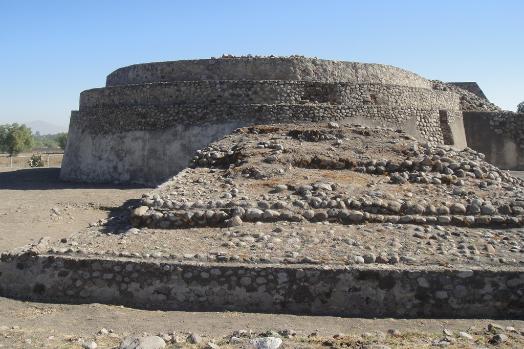 Huexotla, structure 4 south view